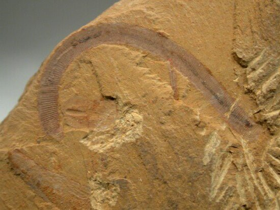 Maotianshania cylindrica Phylum Nematomorpha Early Cambrian Chengjiang Maotianshan Shales